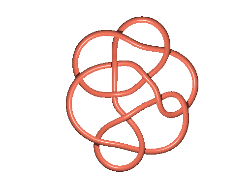 Conway knot. Generated by knotilus website ( and rendered by POV-Ray.